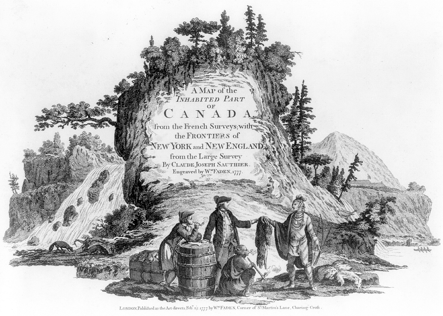 "A Map of the Inhabited Part of Canada from the French Surveys; with the Frontiers of New York and New England from the Large Survey by Claude Joseph Sauthier. Engraved by Wm. Faden, 1777. London. Published as the Act directs by Wm. Faden, Corner of St. Martin's Lane, Charing-Cross, 1777 Feby. 25." Cartouche showing English fur traders dealing with Indians in Canada.